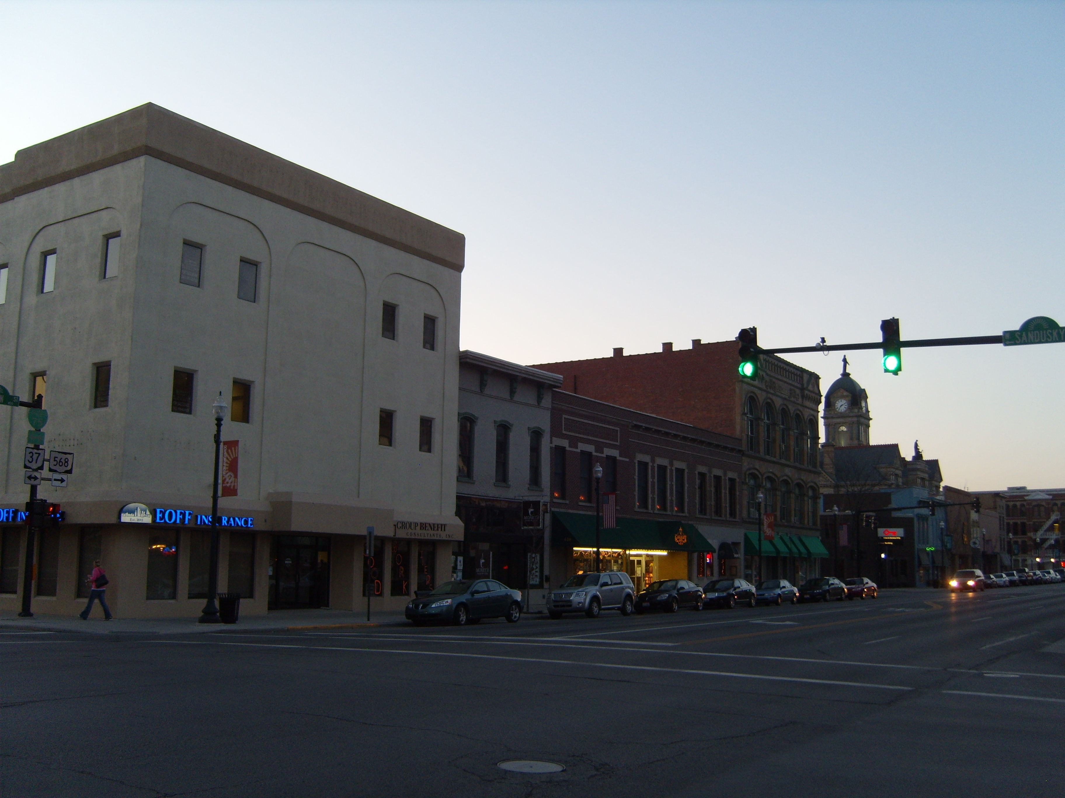 Northwestern corner of the intersection of Main and Sandusky Streets in downtown Findlay, Ohio, United States, with the tower of the Hancock County Courthouse visible in the distance. The buildings in the picture are included in the Findlay Downtown Historic District, which is listed on the National Register of Historic Places.